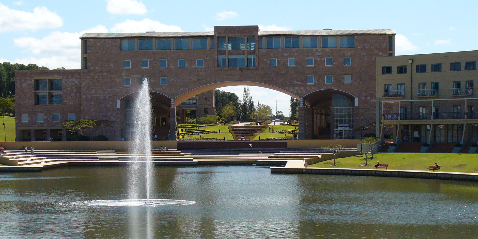 Bond University Taken by myself on 19th September 2006 WikiCats Category:Images of Australian buildings and structures